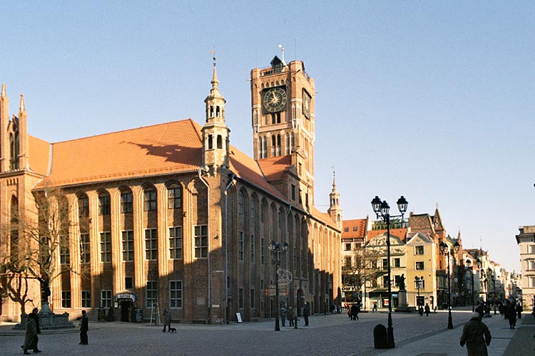 Toruń, Old market square and town hall in Torun